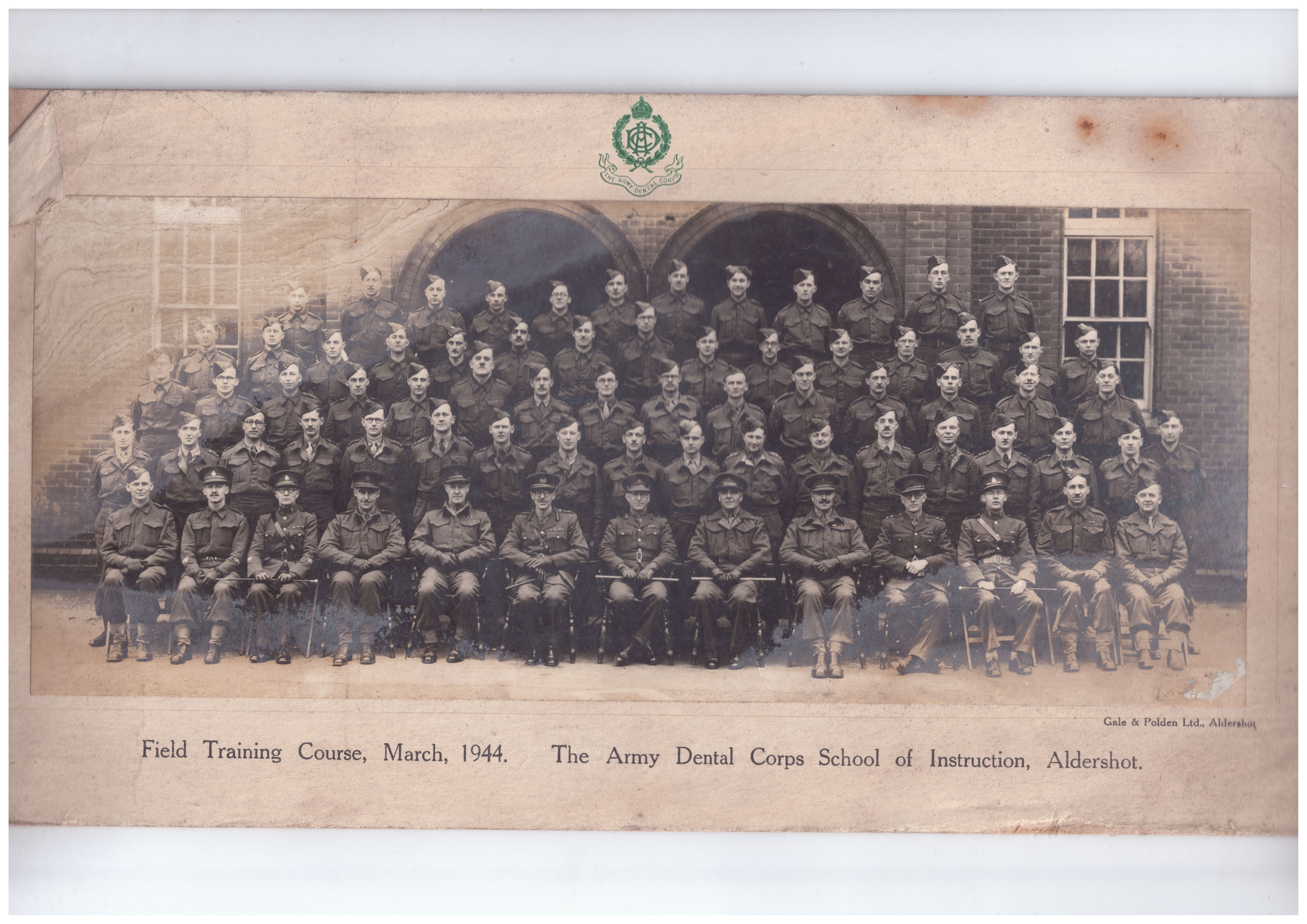 From the Archive of Gordon Pedley